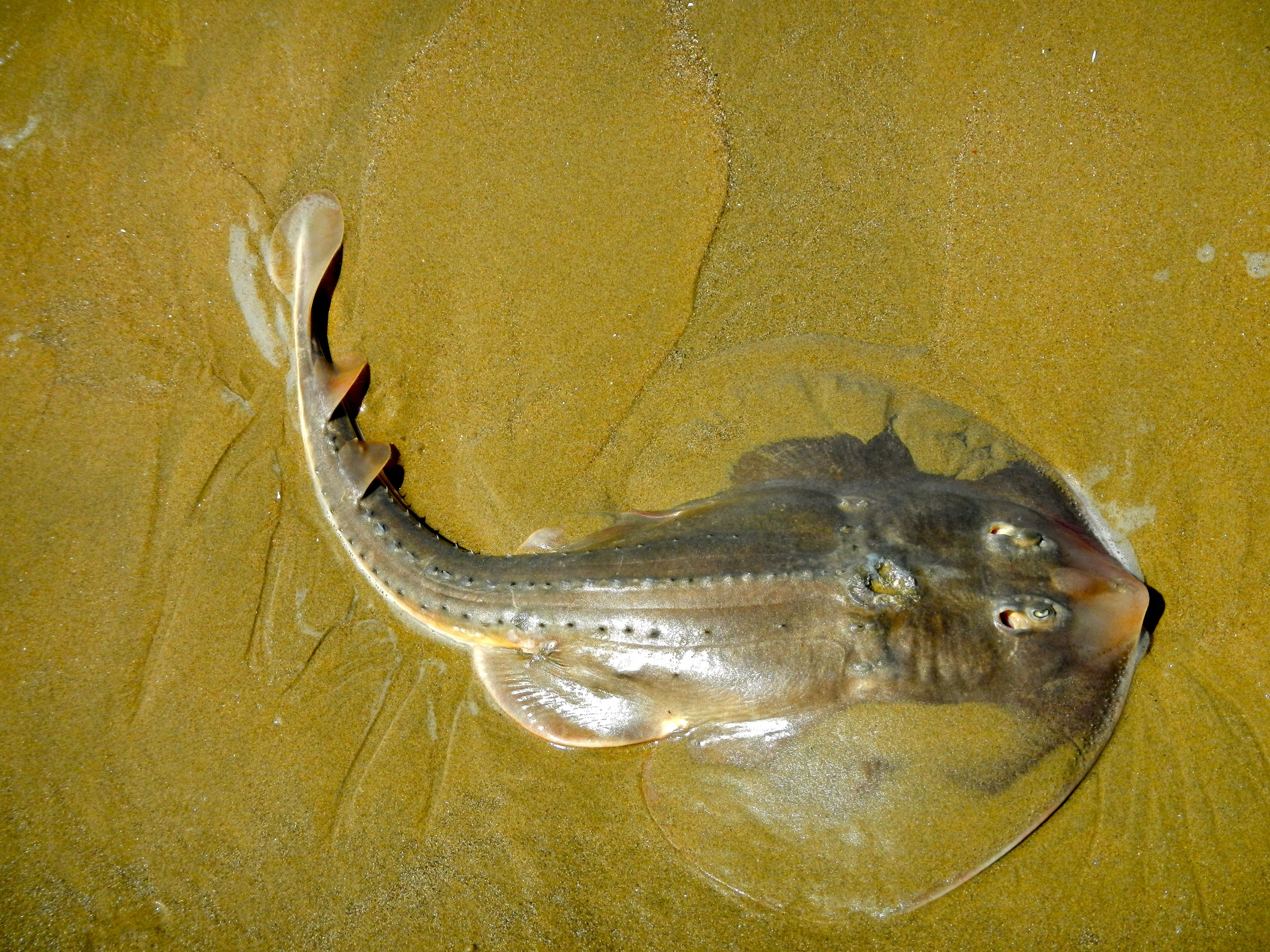 Thornback guitarfish (Platyrhinoidis triseriata) at Pismo Beach CA